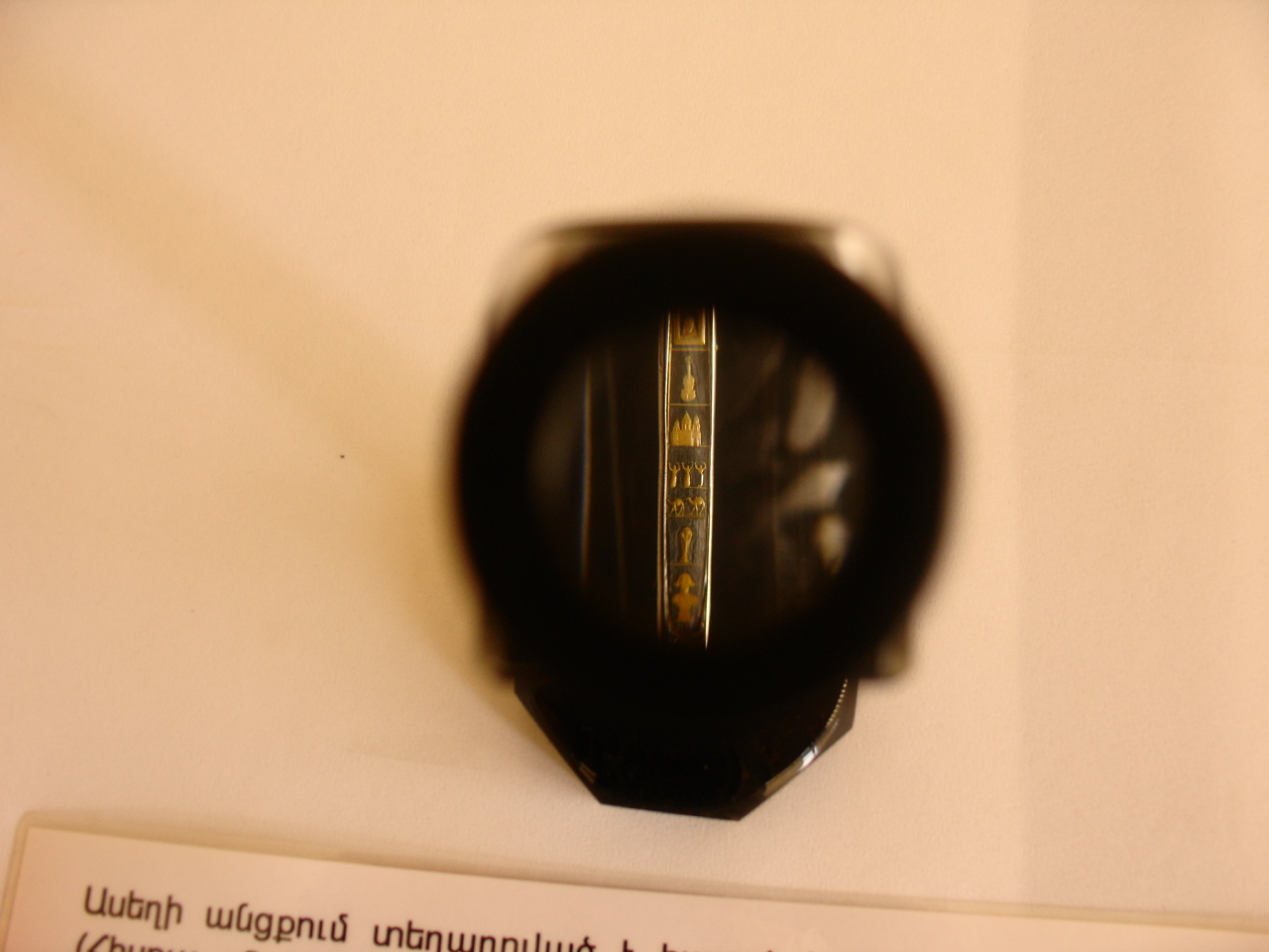 Micro miniature inside a needle by Edward Ter-Ghazarian